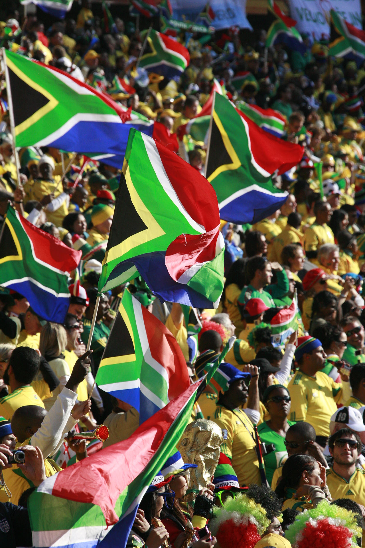 Waving the South Africa flag in support of the national team Bafana Bafana....!